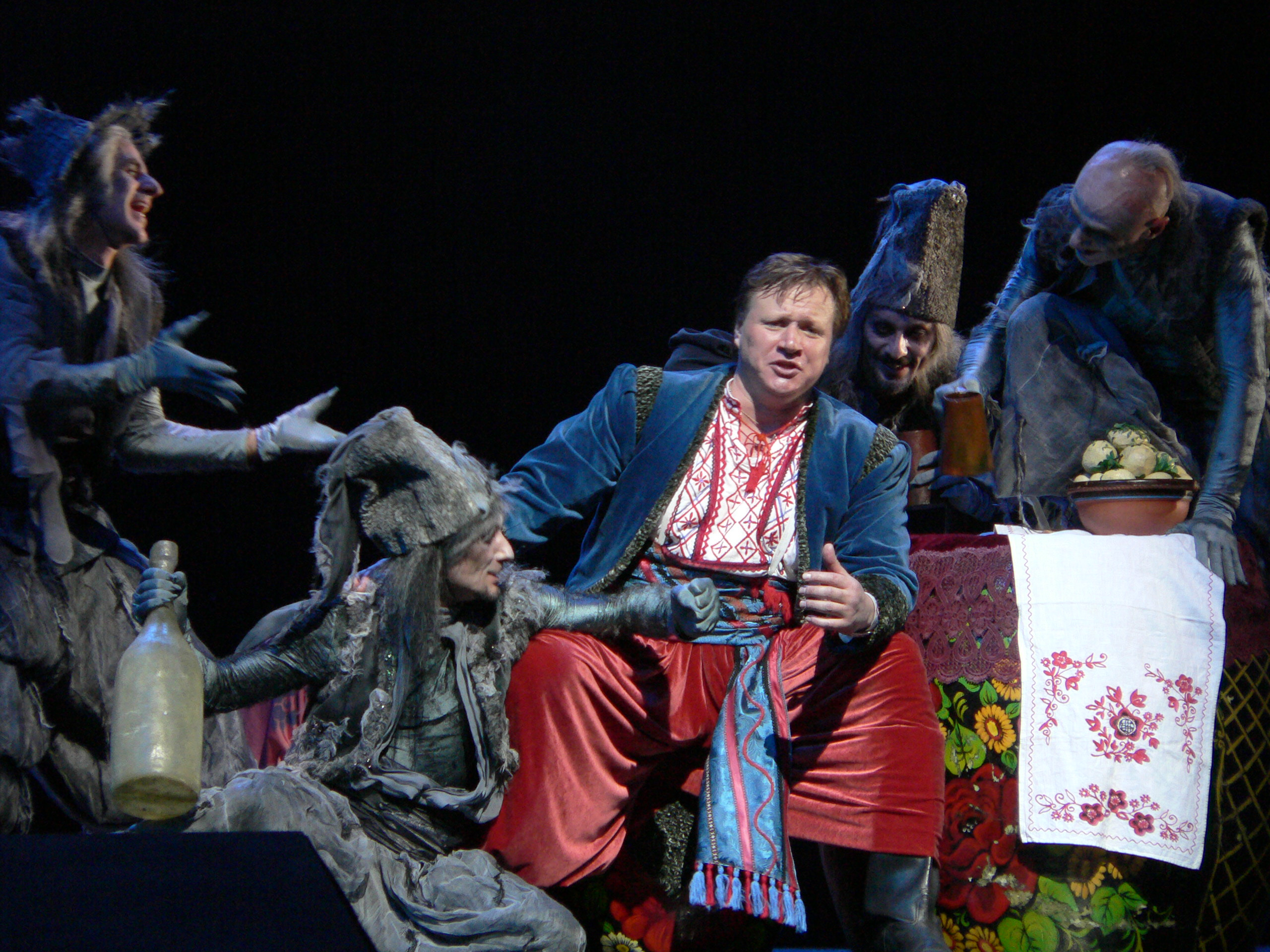 Олег Видеман (в центре) в опере "Черевички". Проект Мстислава Ростроповича